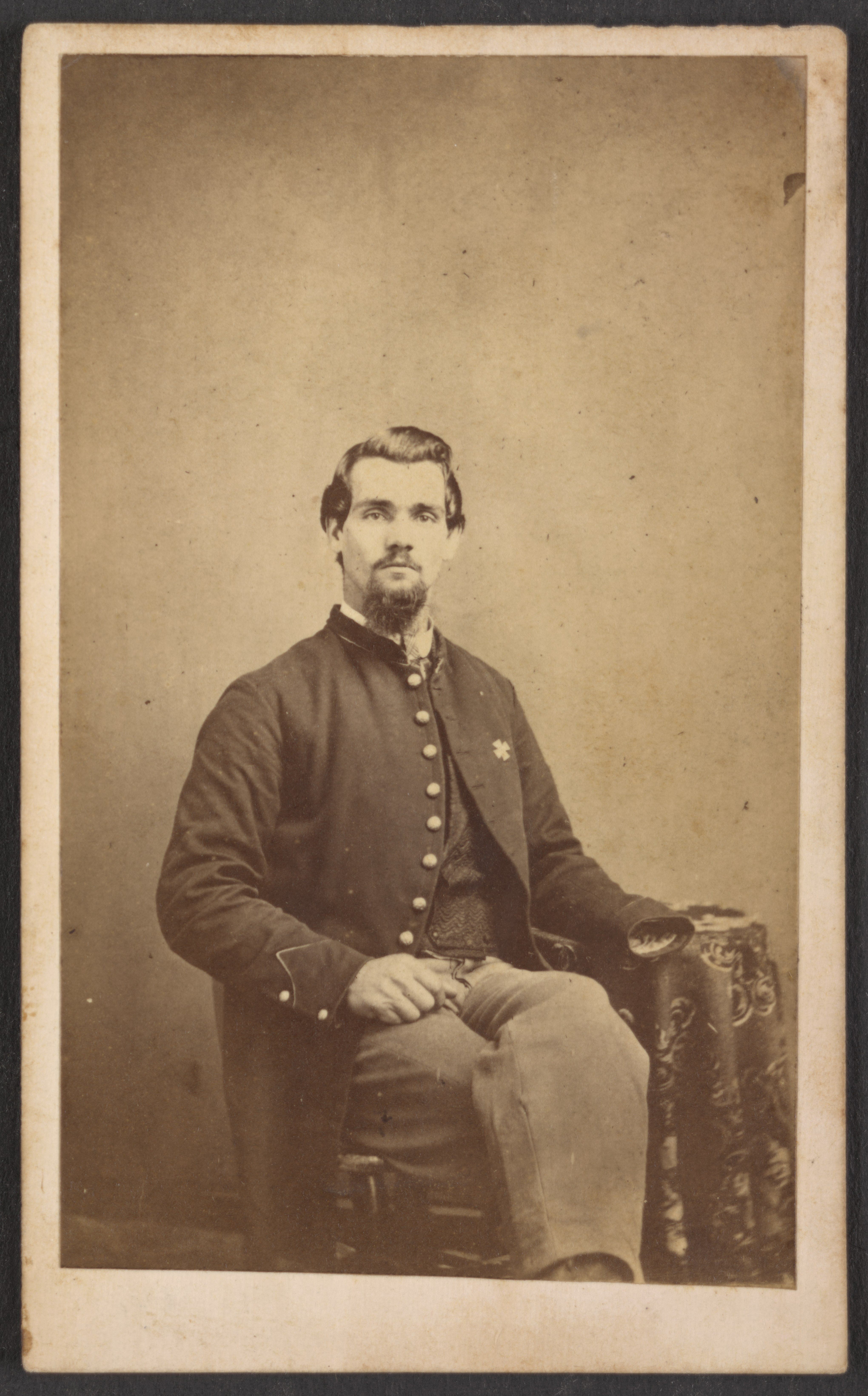 Title: Private Vernon Mosher of Co. F, 97th New York Infantry Regiment, in uniform, amputated hand visible] / Thos. D. Givin, photographer, No. 432 Chestnut Street, Philadelphia Abstract/medium: 1 photograph : albumen print on card mount ; mount 10 x 7 cm (carte de visite format)